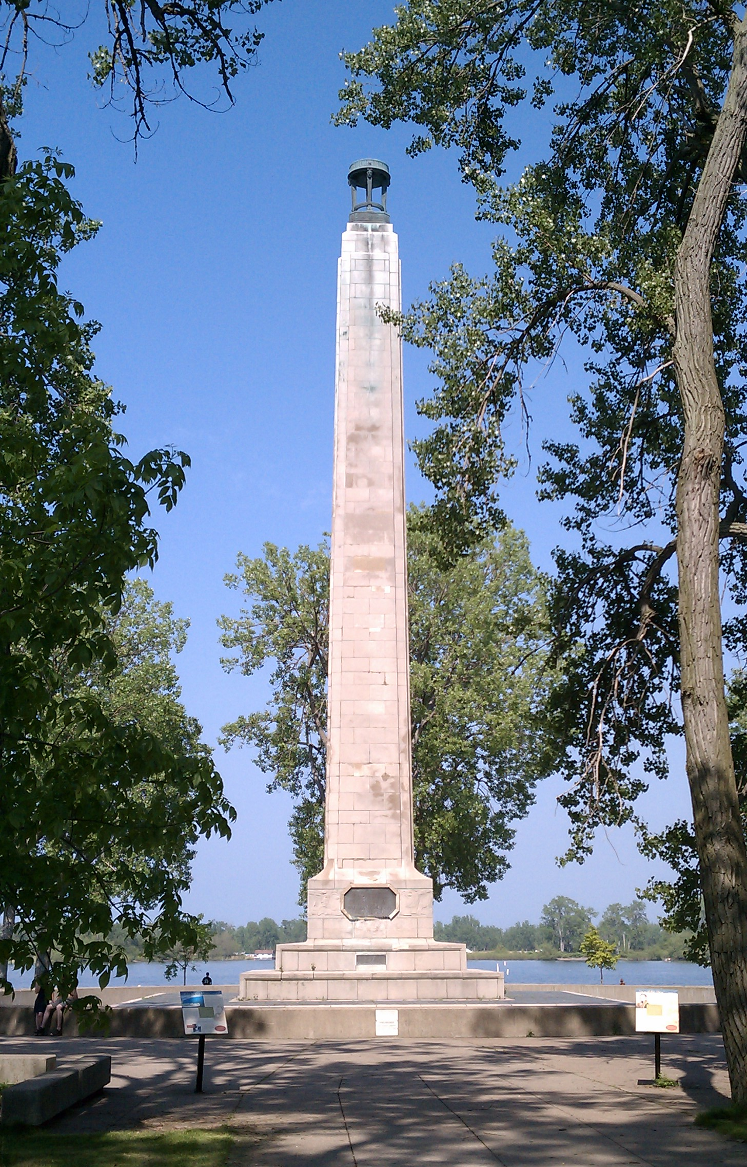 (Oliver Hazard) Perry Monument - Presque Isle State Park, Pennsylvania, USA